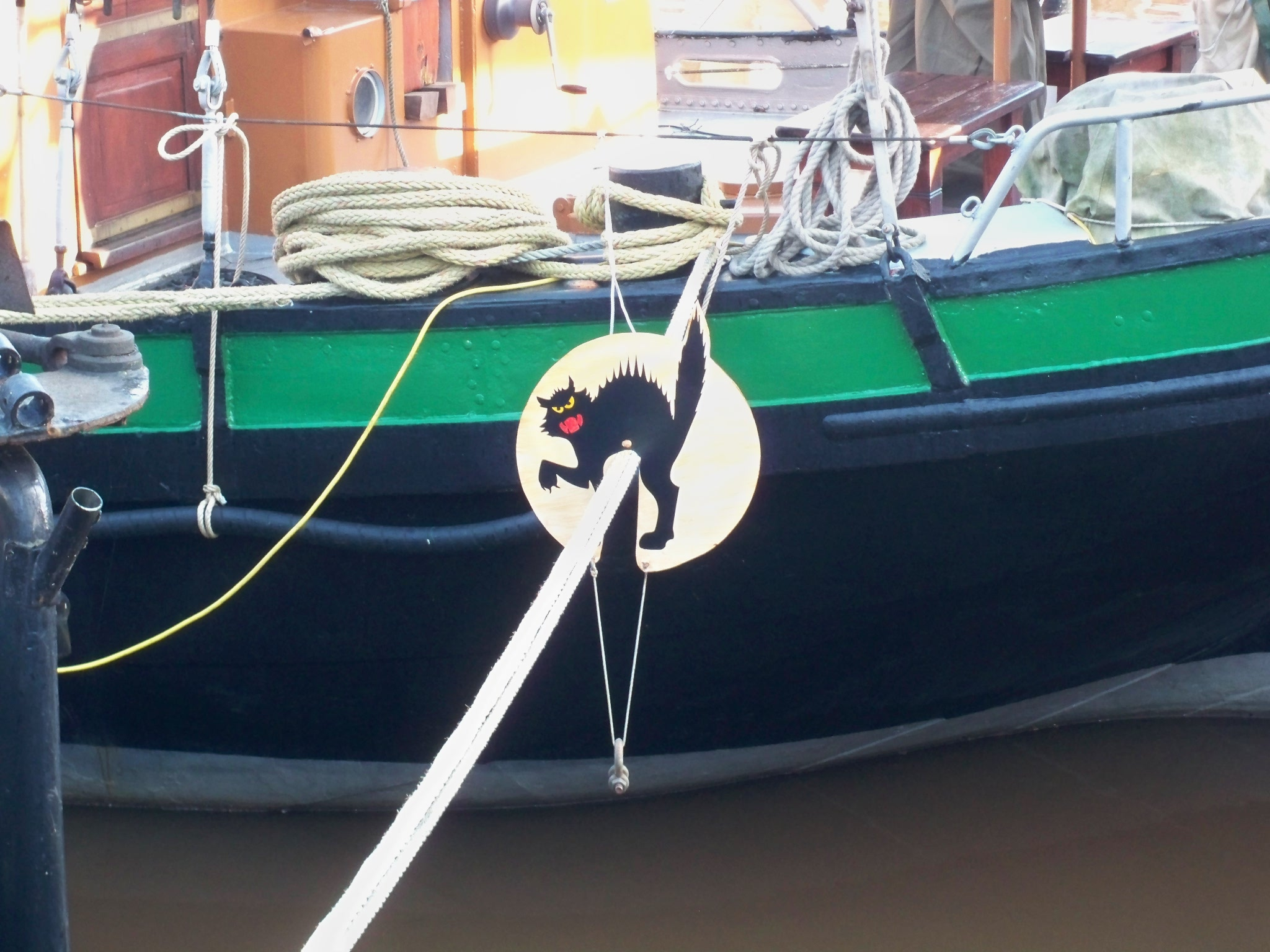 Rat guard with optical aid to prevent rats from boarding